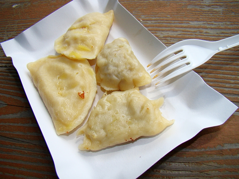 dumplings stuffed with meat, potato, and sauerkraut